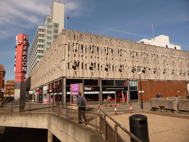 Looking across a broad pedestrianised area alongside this shopping centre which doesn't appear to have an entrance at this southwestern corner. The walkway alongside it, heading to the right, is called Düsseldorf Way, the umlaut's dots present on the street sign. The hexagonal pillar bearing the word Hexagon is referring to the Hexagon Theatre